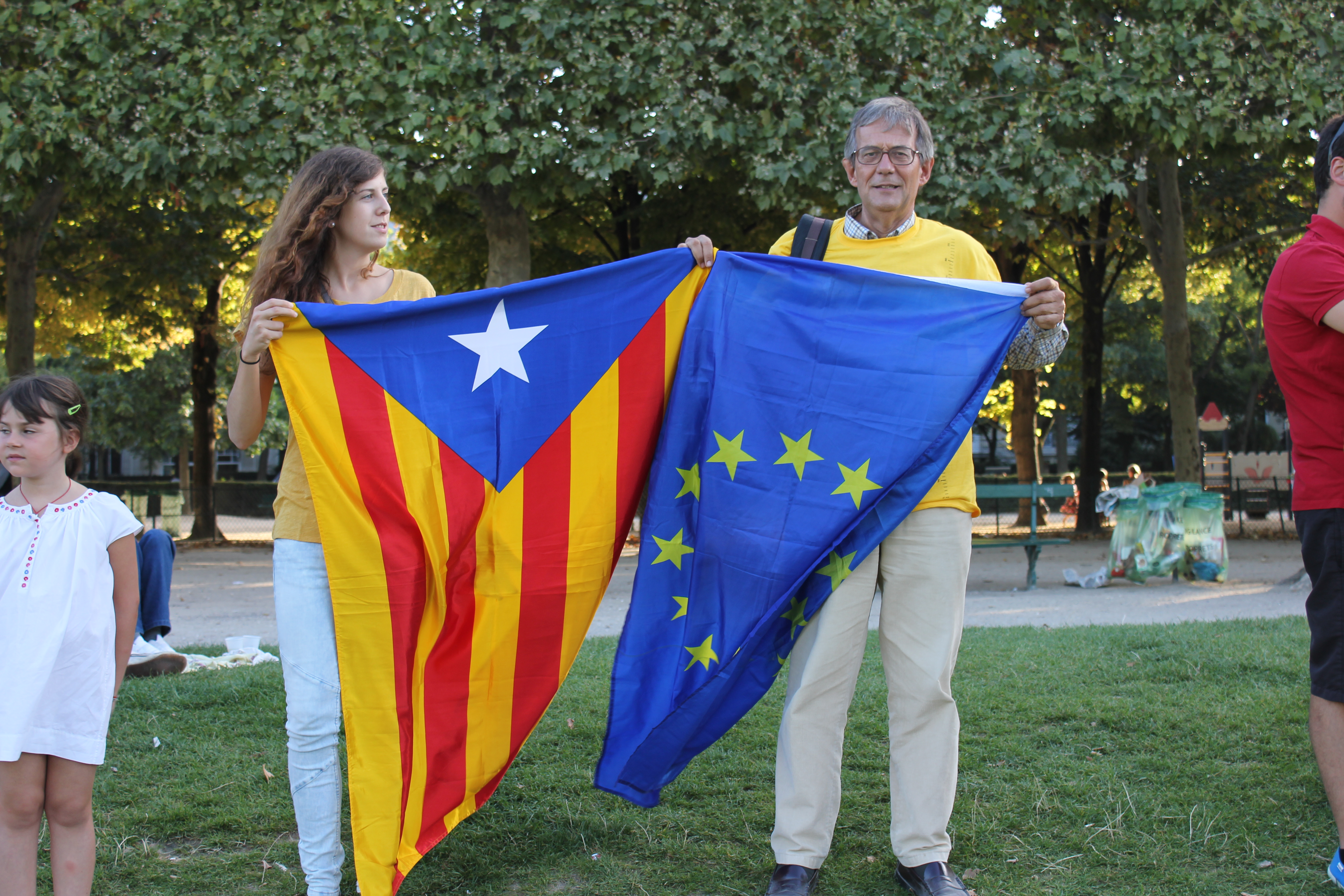 Catalan Way in Paris, on 2 September 2013